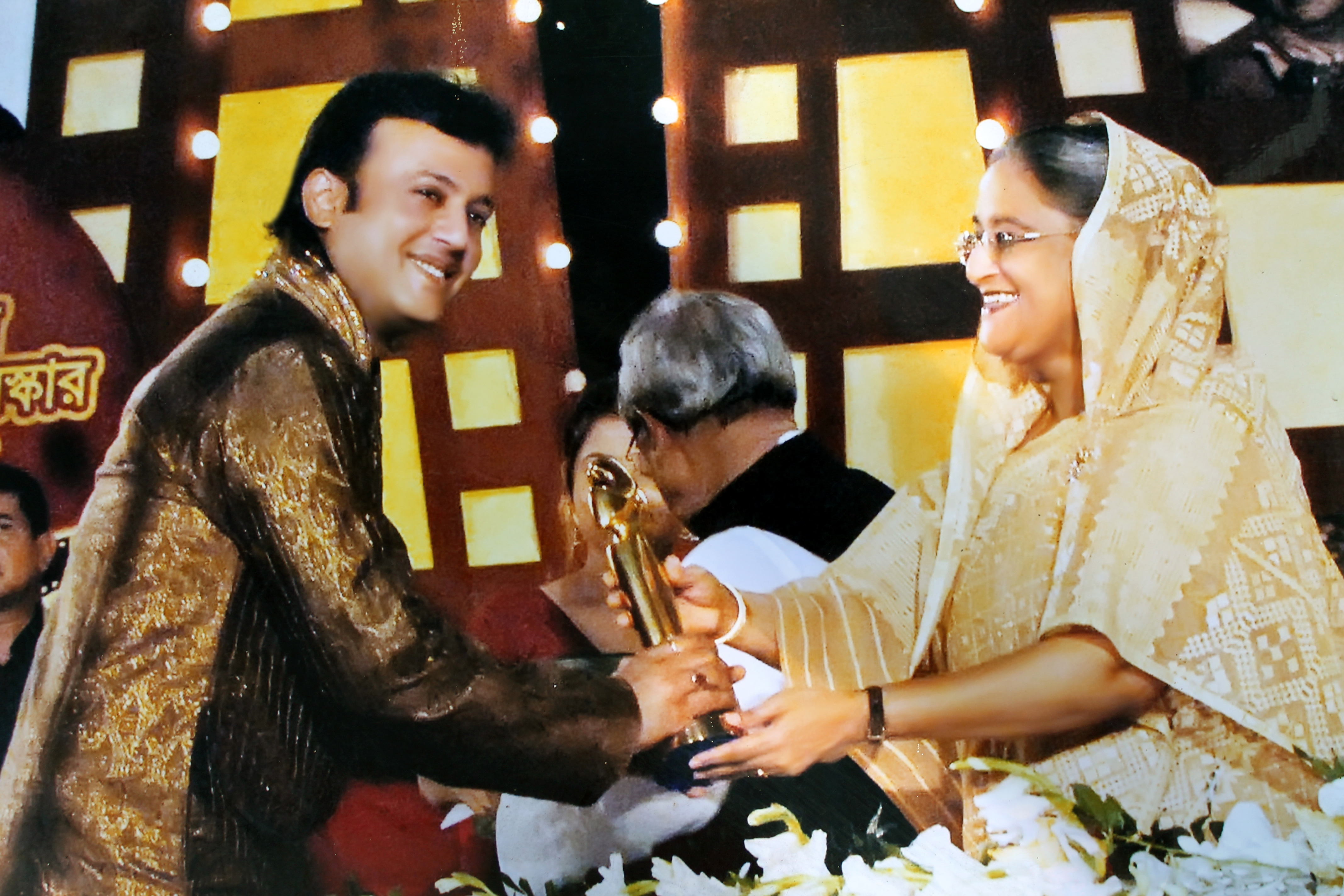 Riaz Receiving National Film Award From Prime Mister Sheikh Hasina in 2009